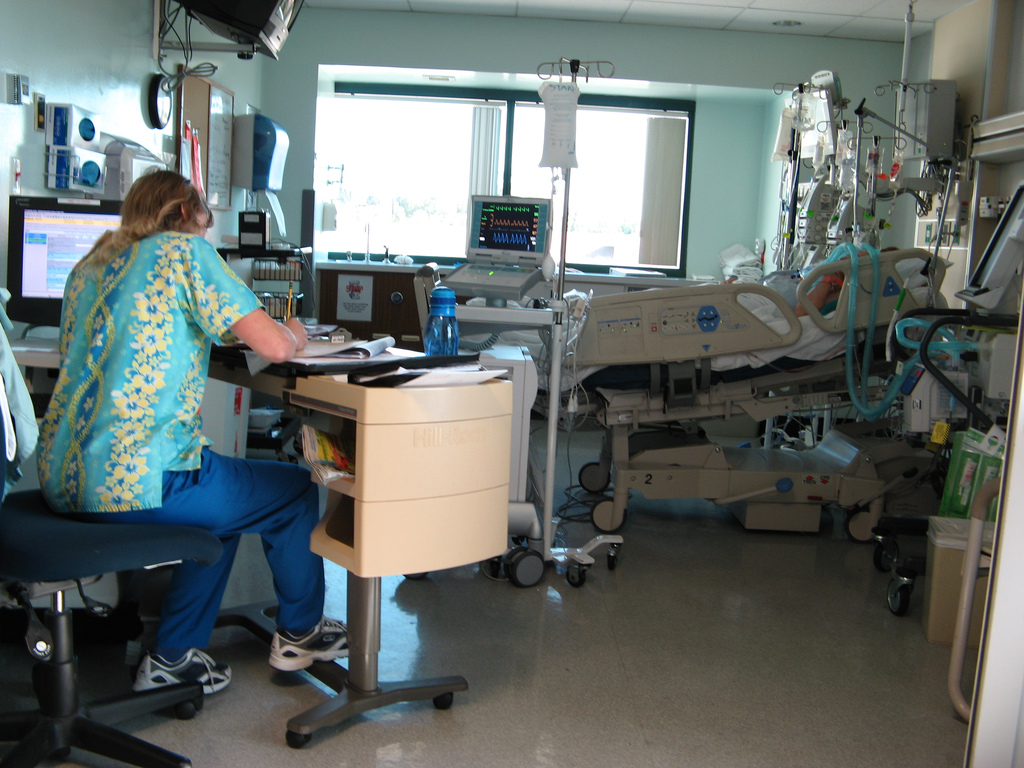 My Grandmother had a heart attack. This is her in the hospital (Palomar Medical Center in Escondido, California).